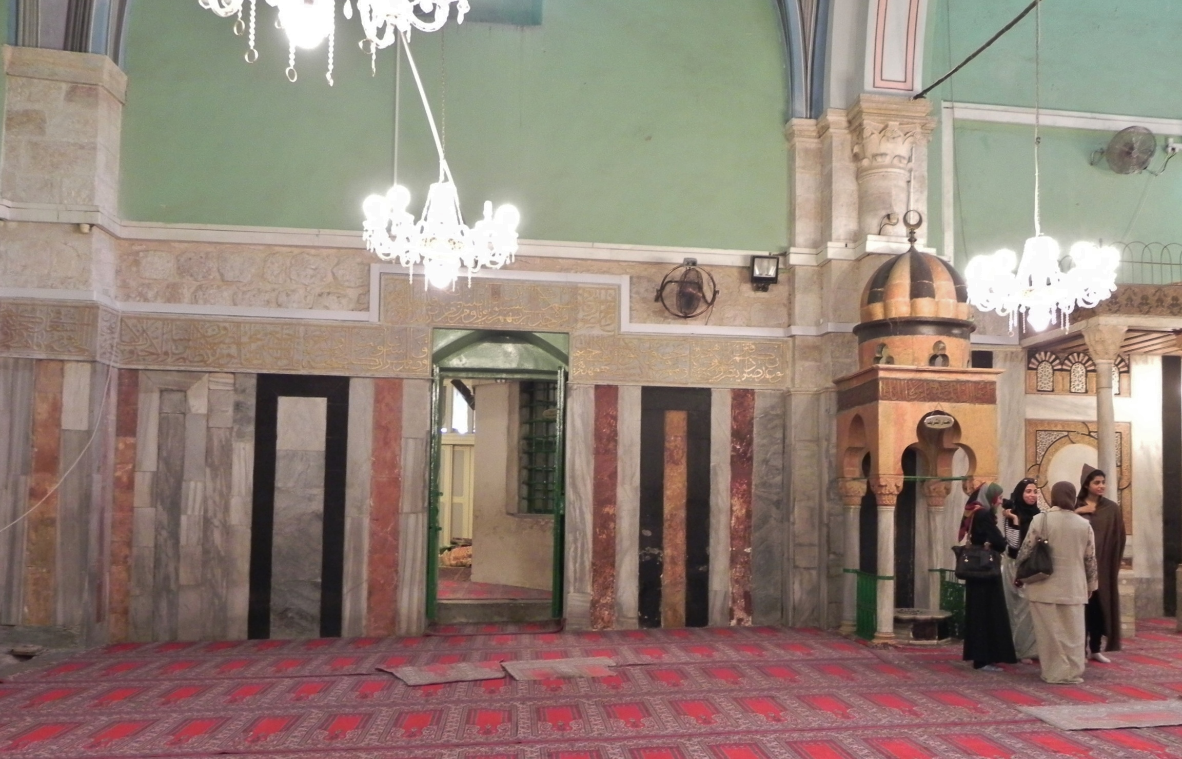 This site is both mosque and shrine, sacred to both the Muslim and Jewish faiths. It was also the site of a massacre in 1994 when during Ramadan an extremist settler opened fire in the mosque with automatic weapons, killing 29 and injuring 200. The site was substquently divided between the faiths and security is extremely tight. Old city, Hebron.